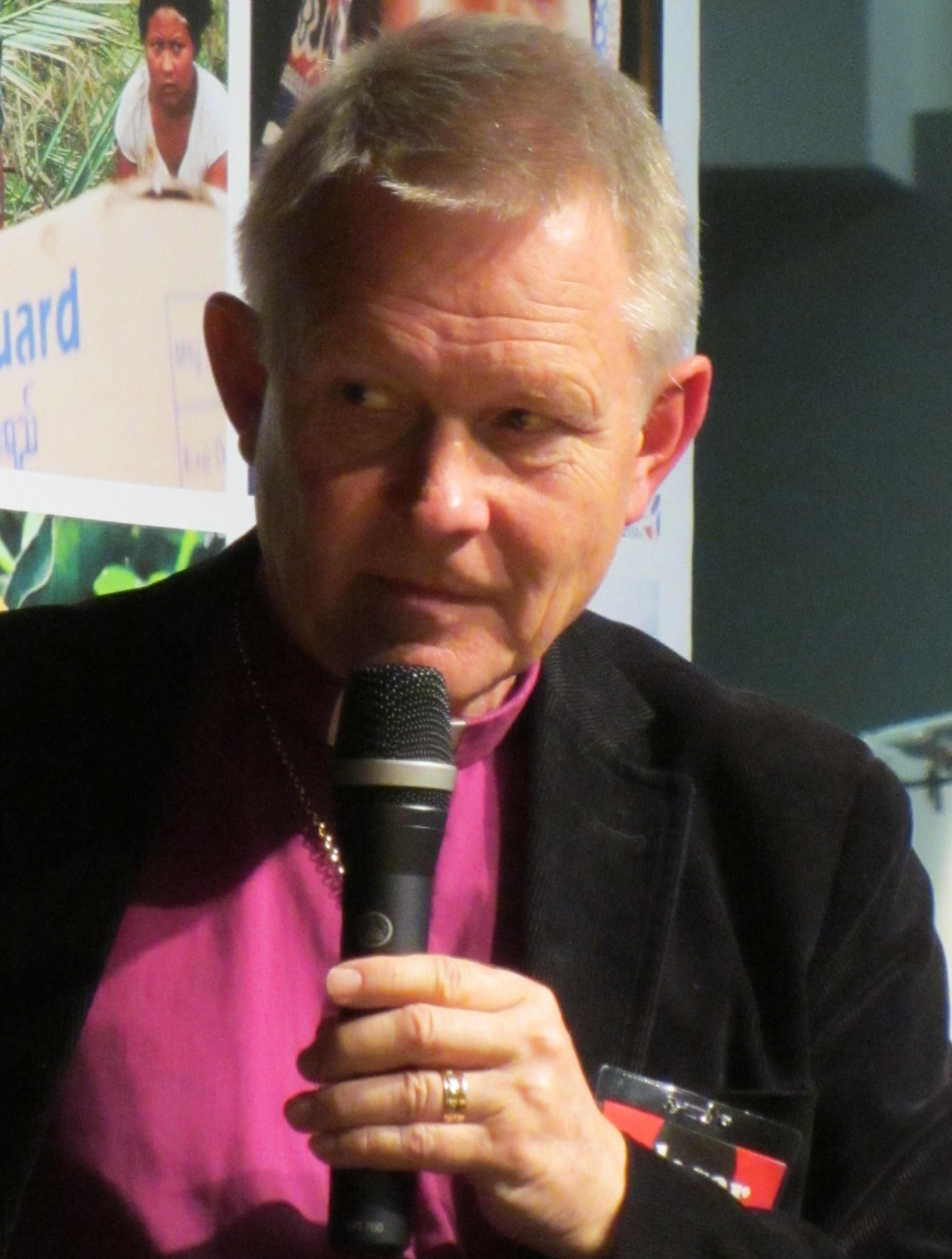 Anders Wejryd, Archbishop of Uppsala and primate of the Church of Sweden.